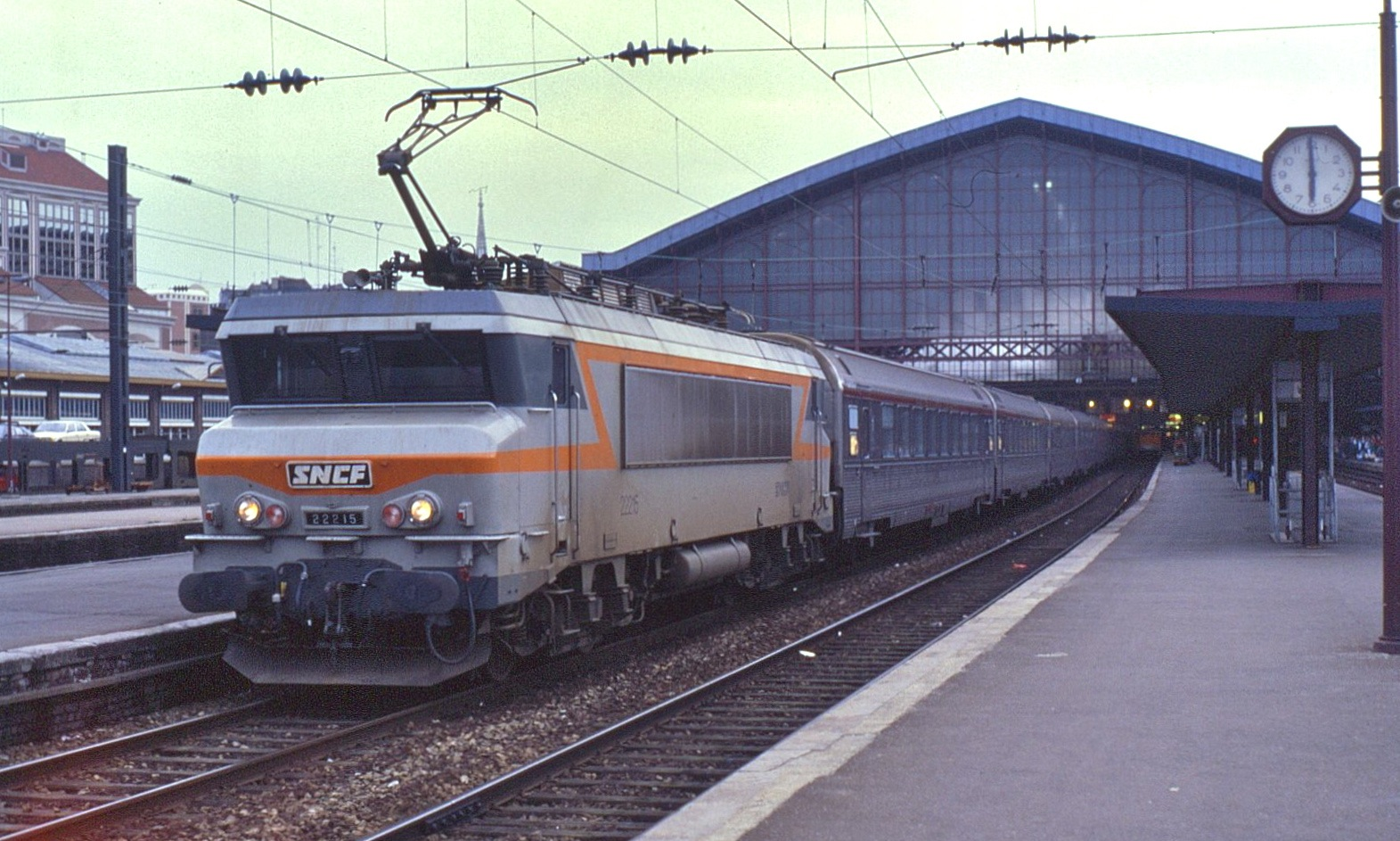 The TEE Watteau waiting to depart the Gare de Lille-Flandres (in Lille, France) in March 1989, headed on this day by SNCF locomotive 22215, of Class BB 22200. The clock on the right shows 6:00 p.m., which was only 1–2 minutes before the the Watteau’s scheduled departure time for Paris. At this time, the Watteau was one of only three remaining TEE trains in Europe. Photographer's description on Flickr: Pre-TGV days at Lille, when services to Paris were loco-hauled as with so many other routes. BB22215 taken on 10 March 1989. The stock seen here is TEE (Trans Europ Express). Trains were often first class only and usually international routes. However SNCF used the branding on certain prestige services internally in France, often in the mornings and evenings for those travelling on business. Stock was a distinctive stainless steel finish built under license from USA manufacturer, Budd.